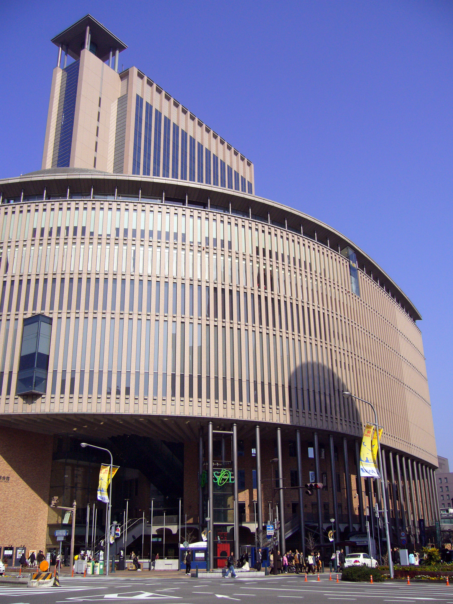 Kobe International House Building in Kobe, Hyogo prefecture, Japan